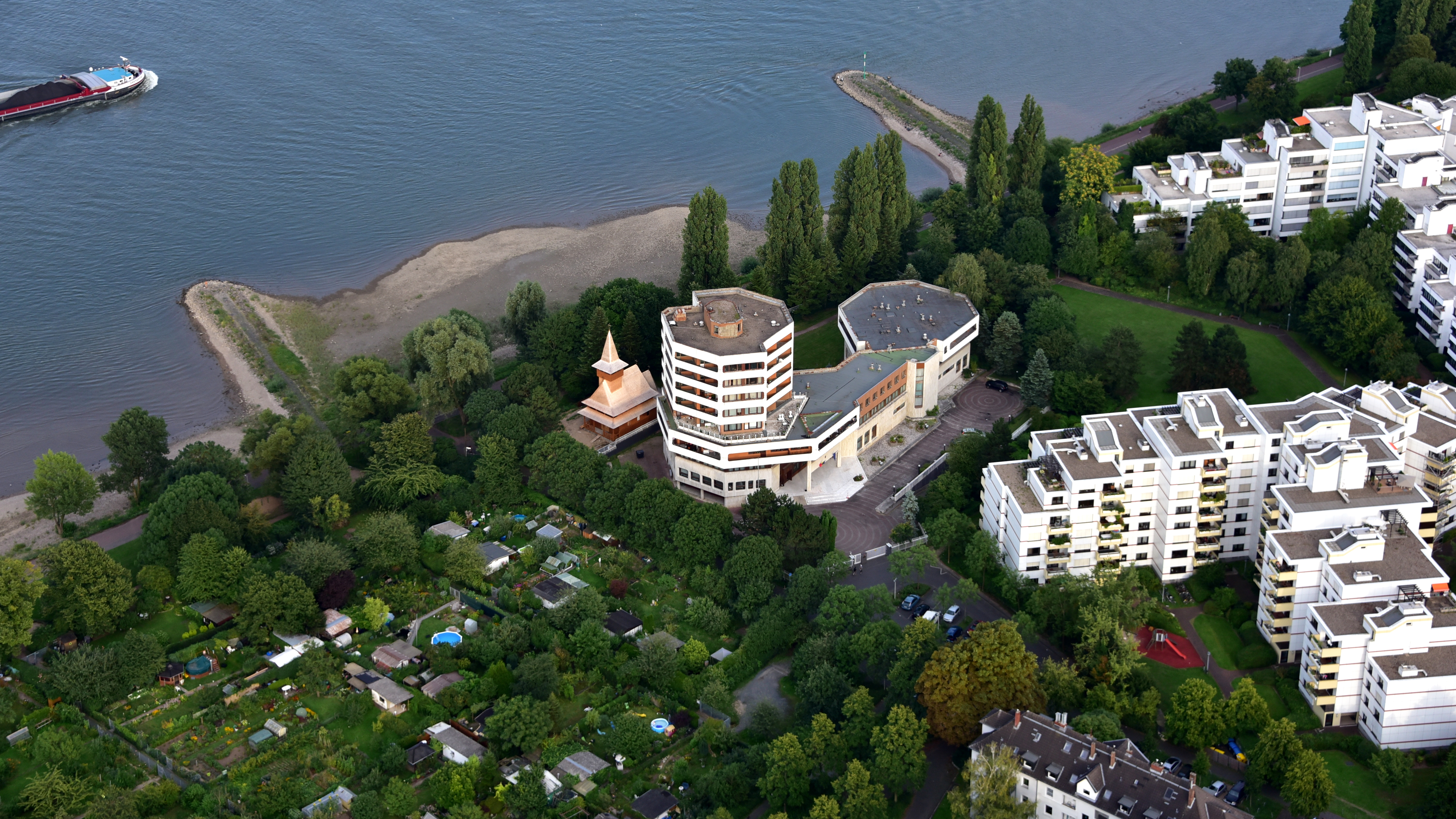 Consulate-general of Romania in Bonn, Legionsweg 14